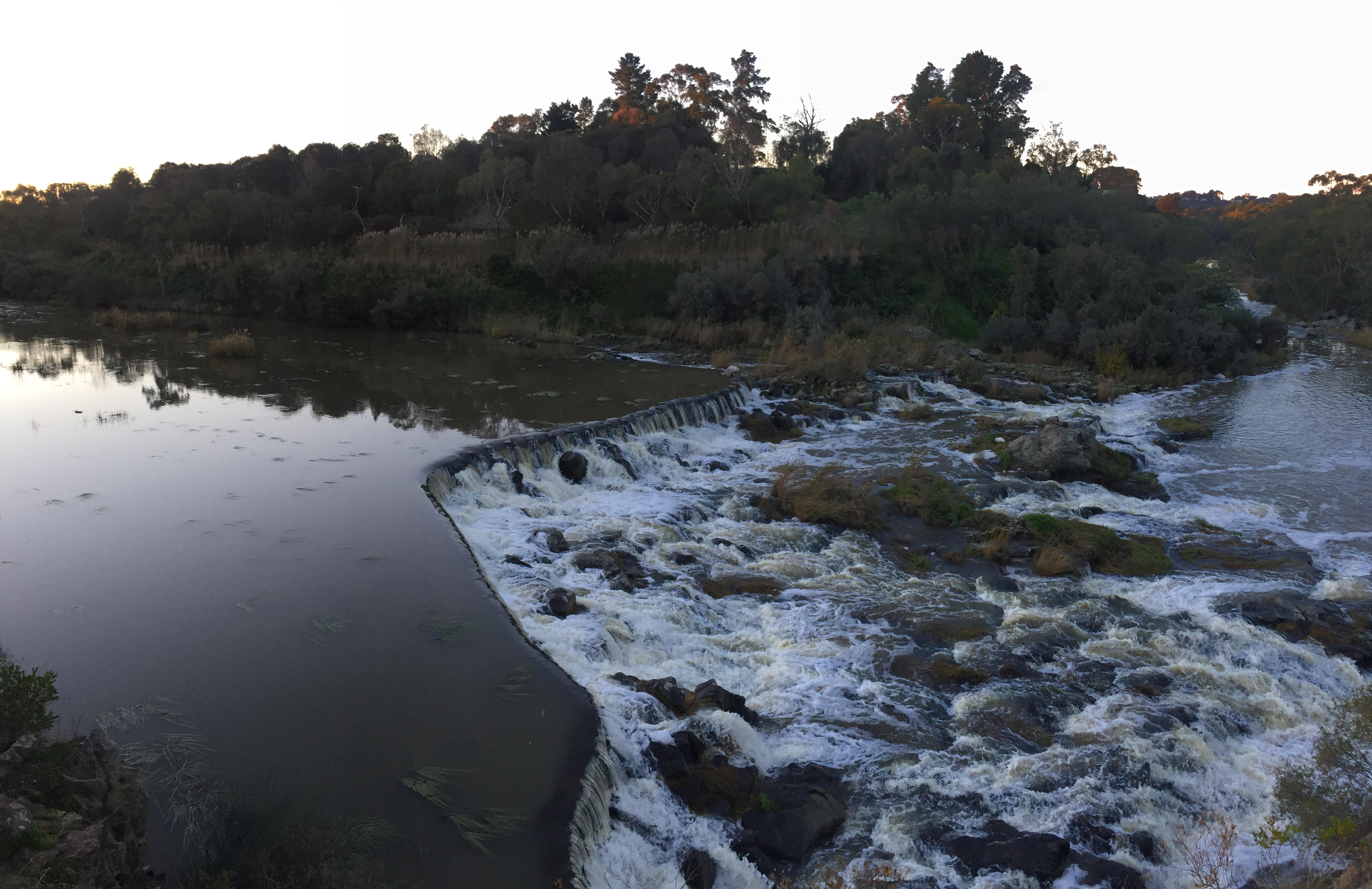 The North-Western section of the Buckley Falls, when considered from the Buckley Falls Lookout, located in the South-Western area of the falls.